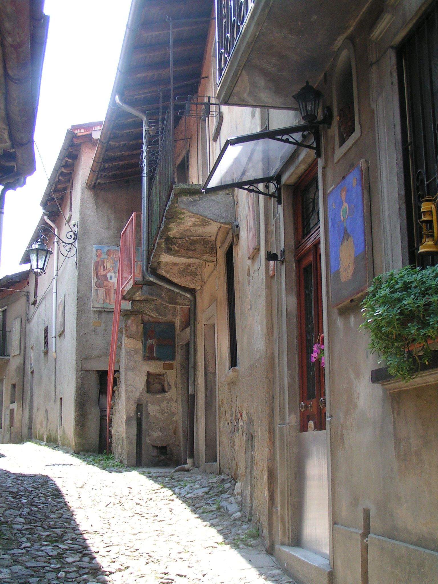 Outdoor-exhibition of paintings in Arcumeggia